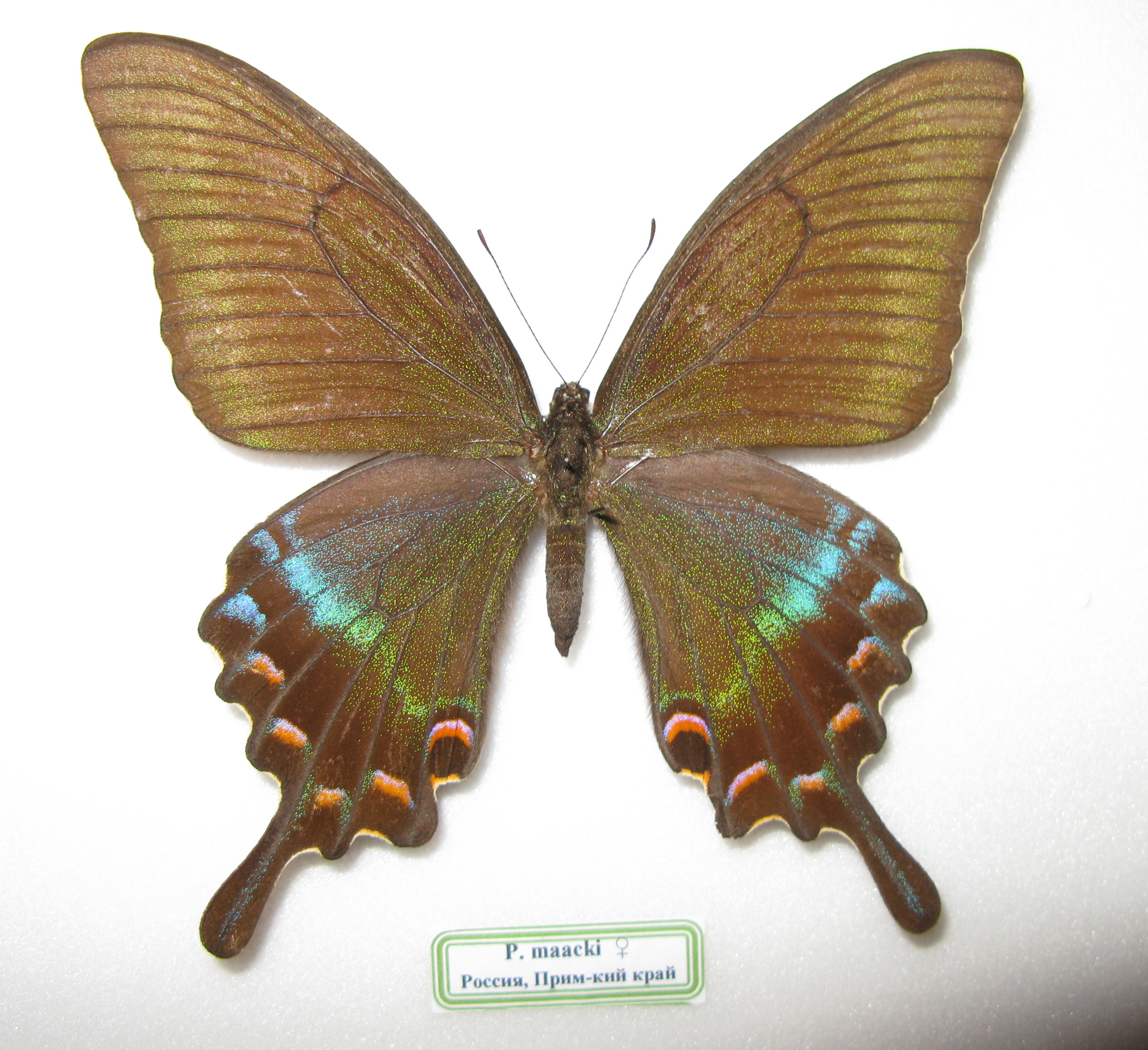 Papilio maackii female